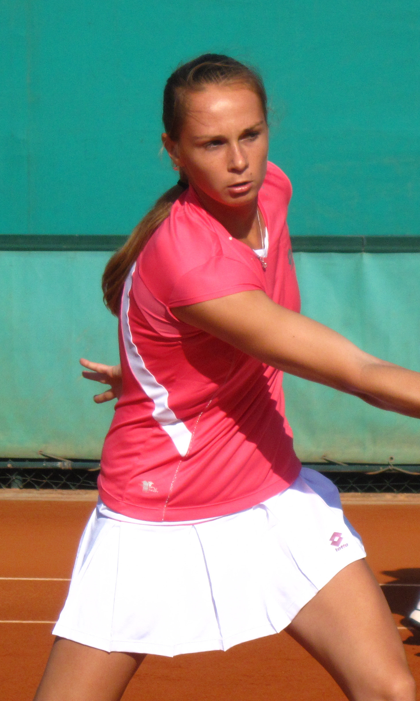 Magdalena Rybarikova at 2009 Roland Garros, Paris, France